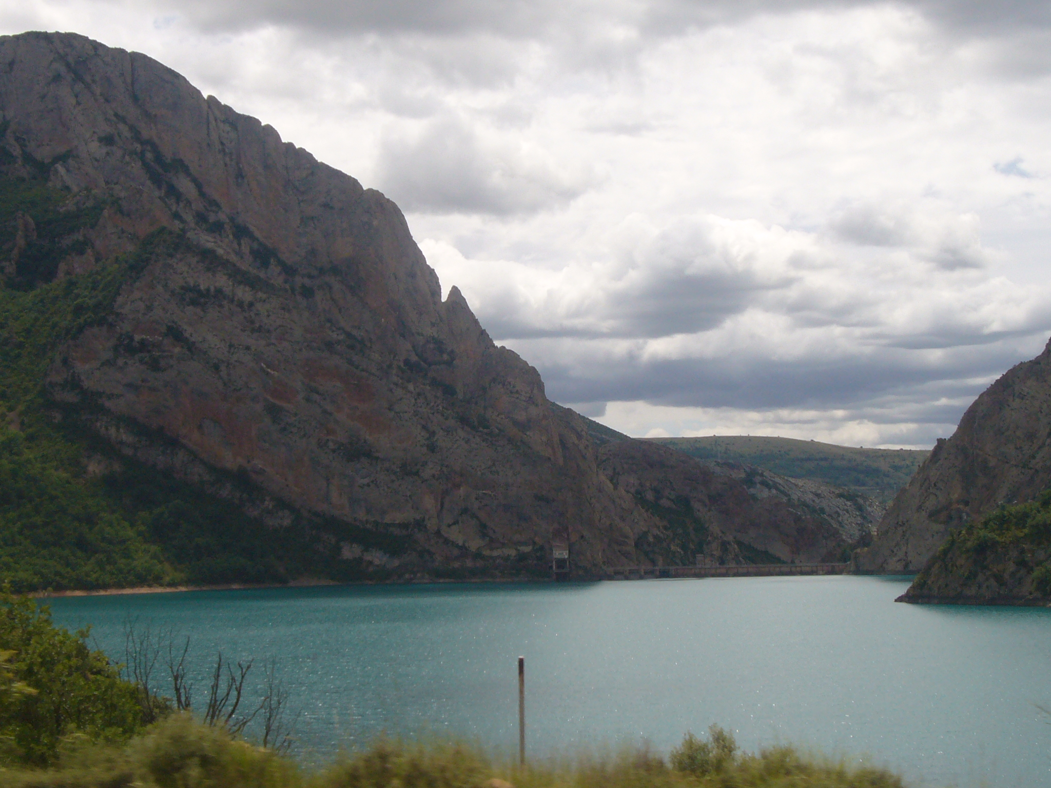 Escales reservoir